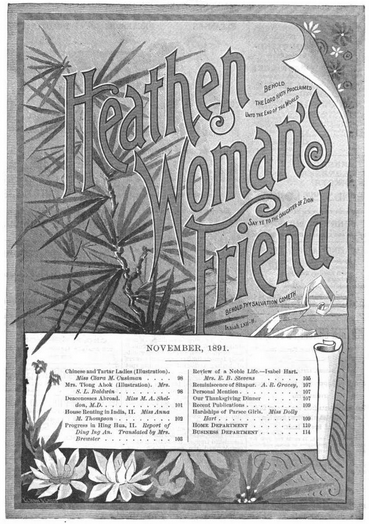 The Heathen Woman's Friend, Volumes 23-24, November 1891